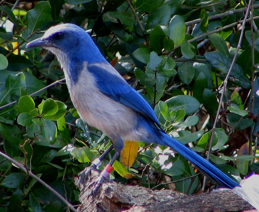 Florida Scrub Jay, Blue Springs State Park, Orange City, Florida. Taken by Mwanner, 28 Feb, 2006.